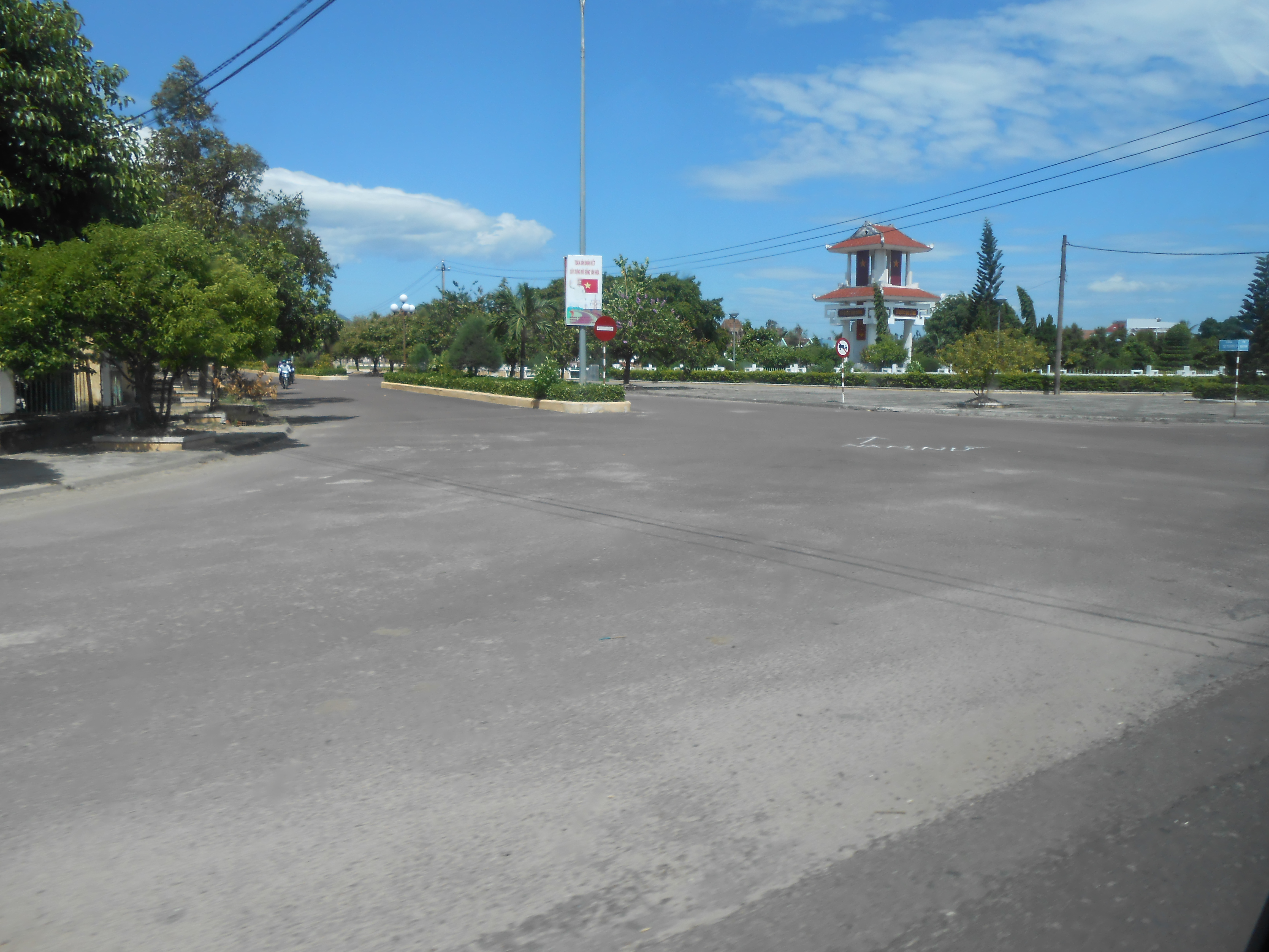 A corner of Ngo May town in Phu Cat District, Binh Dinh, Vietnam